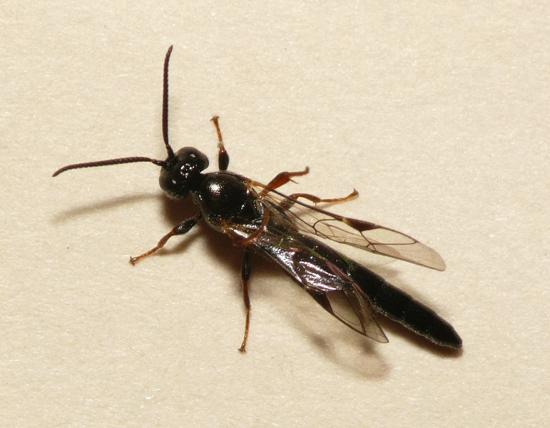 Carria paradoxa, female. Location: The Netherlands - Rhenen - Blauwe Kamer